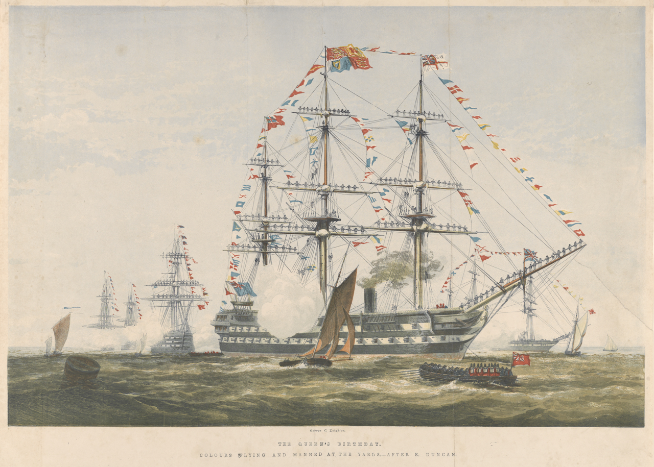 The Queen's Birthday. Colours Flying and Manned at the Yards. James Watt A commemorative image showing the James Watt (shown starboard bow) flying the colours of the nations and manned at the yards. In the distance on her left are three more such ships decked in the same manner, as is the ship on her right. In the foreground is a royal barge with rowers, shown in port quarter view. A buoy floats in the left foreground. Three sailing boats in total can be seen around the image on both sides of the image and in the centre foreground. Illustration for a coloured supplement of the Illustrated London News, 26 July 1856, related to the following passage: ‘“The Queen’s Birthday” requires few comments of ours. A nobler sight is not to be imagined or limned than one of these new leviathans, a screw-propelled first-rate, decked with the flags of all nations, surmounted with the Royal Standard – as she appeared on May 23rd last, when the accompanying Illustration was sketched.’ (p. 84) The Queen's Birthday. Colours Flying and Manned at the Yards. James Watt